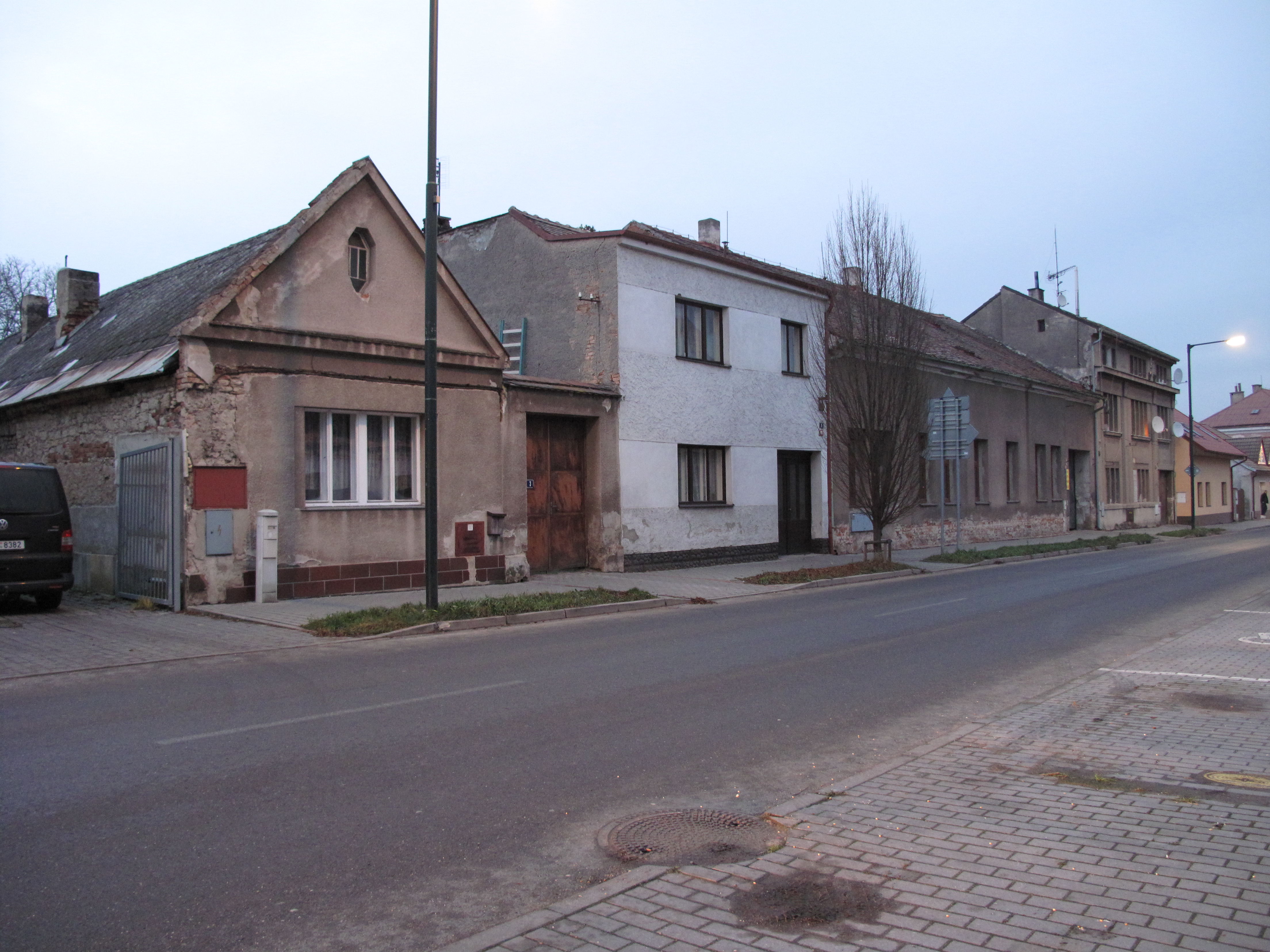 Former synagogue in Lysá nad Labem, Nymburk District, Czech Republic.